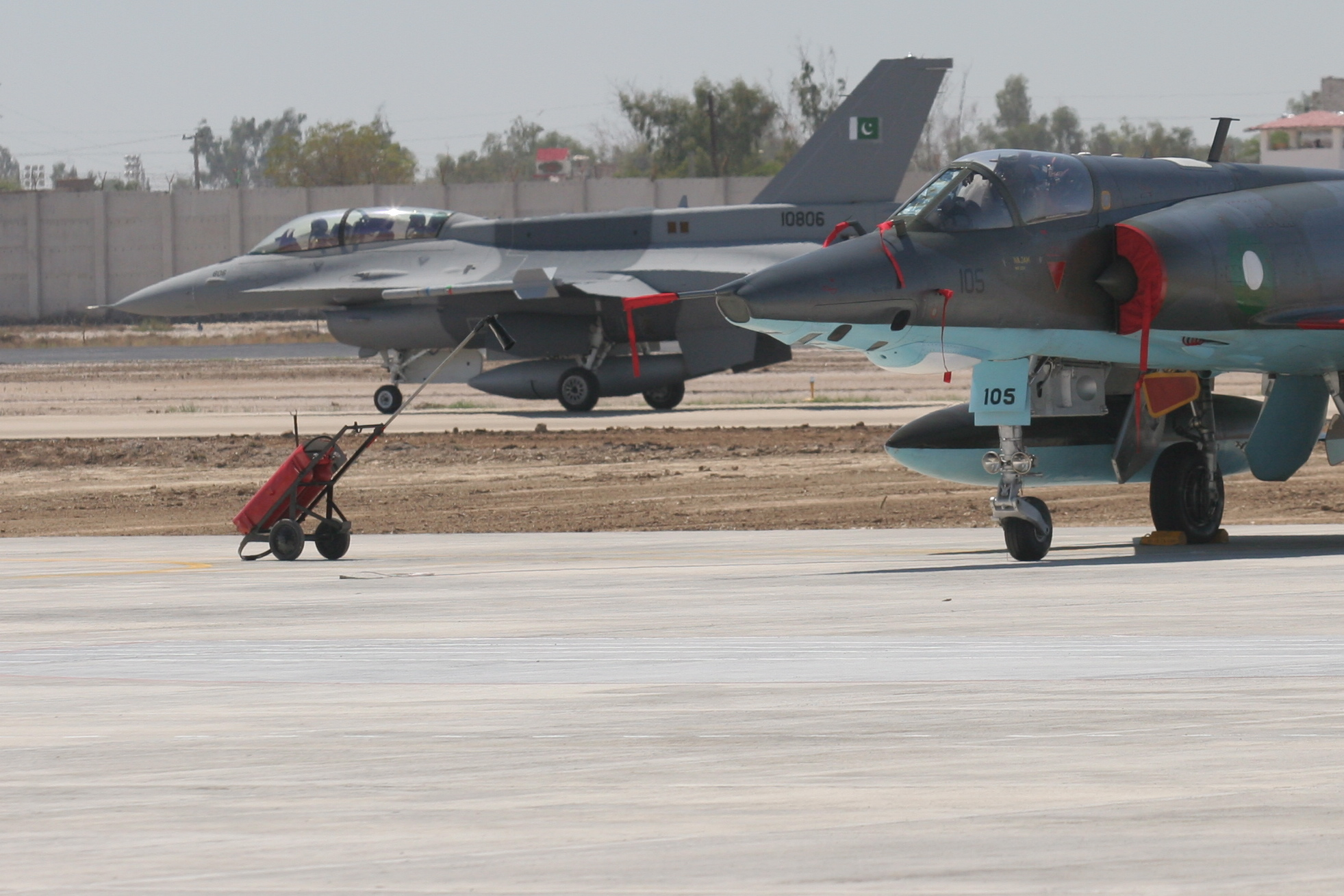 PAF re-equipping ceremony A Pakistani Air Force F-16 taxis past a Pakistan Air Force Mirage fighter jet on the runway at Pakistan Air Force Base Shahbaz near Jacobabad, Pakistan. The F-16s belongs to the new re-designated Squadron 5 and replaces the older Mirage aircraft. The Pakistan Air Force conducted a re-equipping ceremony on March 10 which was attended by Maj. Gen. Richard Shook, the Individual Mobilization Augmentee to Lt. Gen. Mike Hostage, U.S. Air Forces Central commander. (U.S. Air Force photo by Lt. Col. Michael Shavers)